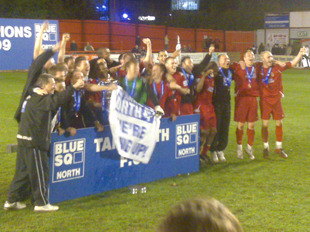 Picture the celebrating Tamworth players and staff after just winning the Conference North 2008/09 season.